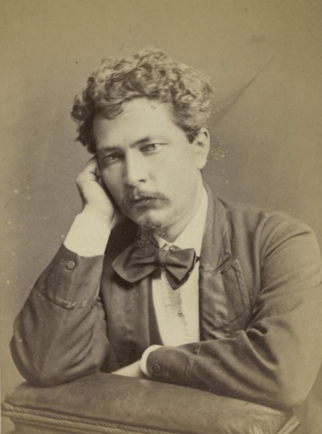 A portrait from the Welsh Portrait Collection at the National Library of Wales. Depicted person: Henry Morton Stanley – Welsh journalist and explorer